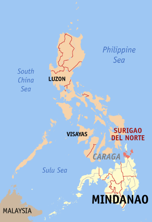 Map of the Philippines showing the location of Surigao del Norte